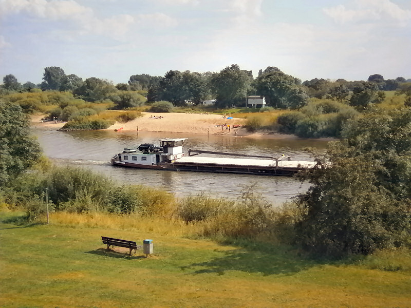 Beach at Weser River Side, Achim, Germany.